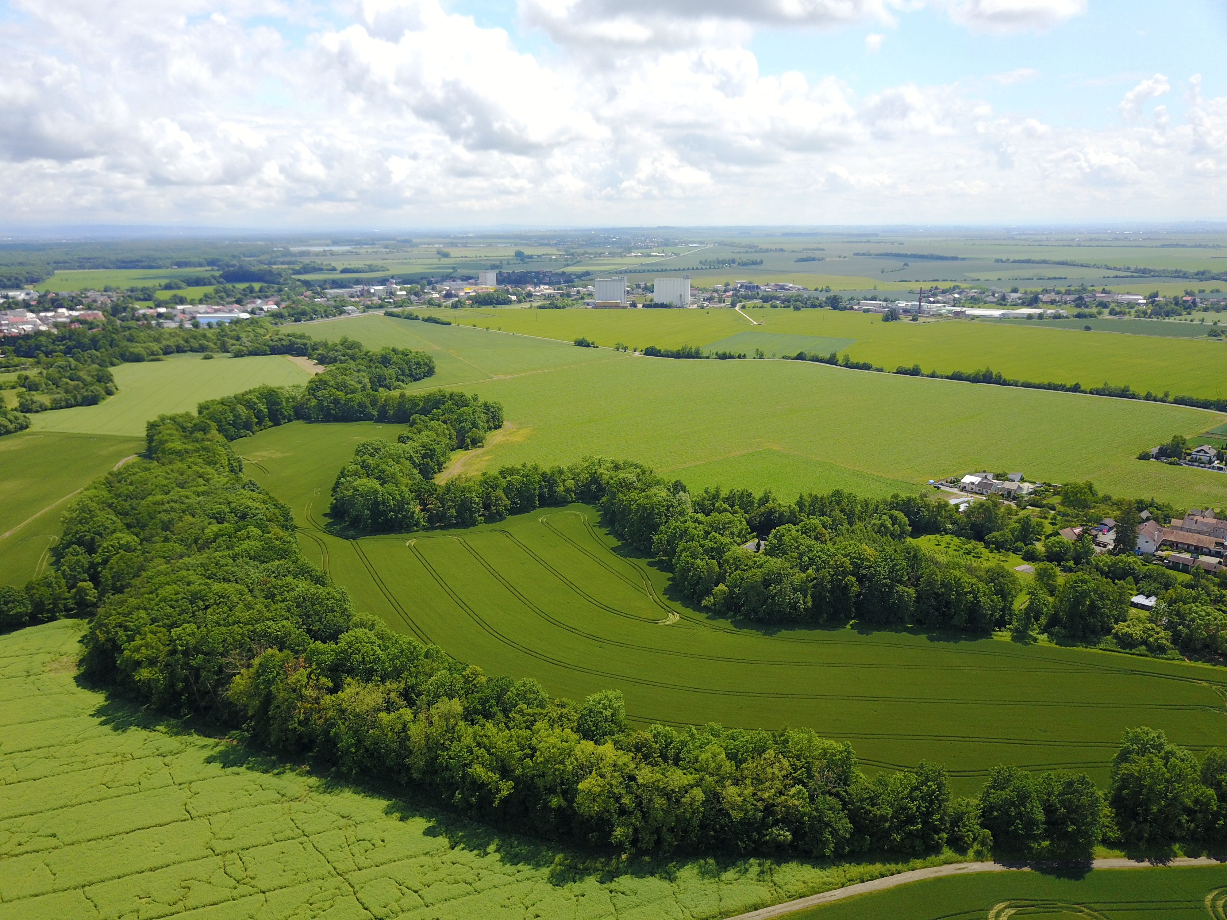 Mala voda river